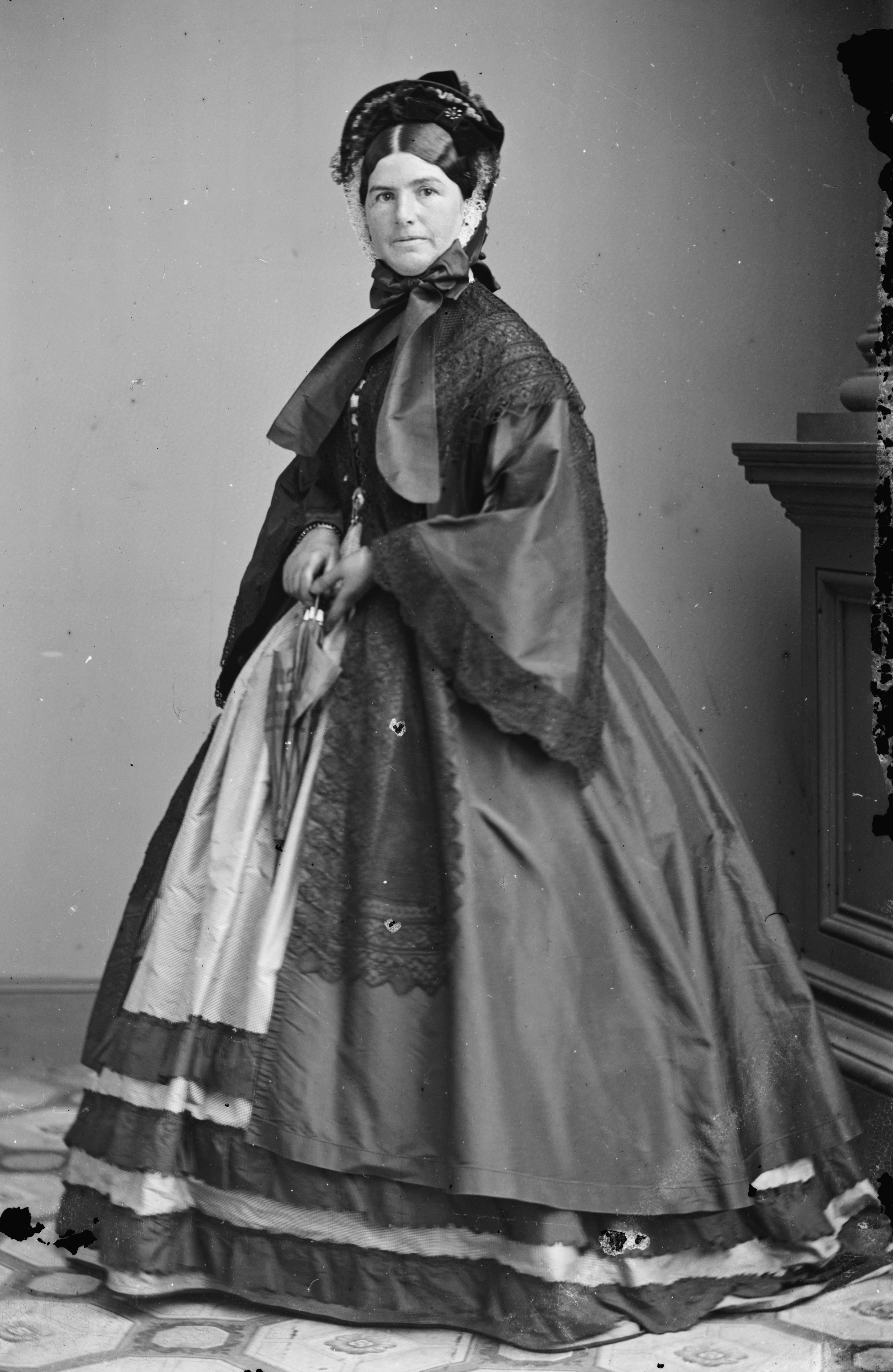 Mary Theodosia Palmer, wife of Nathaniel Prentice Banks. Library of Congress description: "Mrs. N. P. Banks"